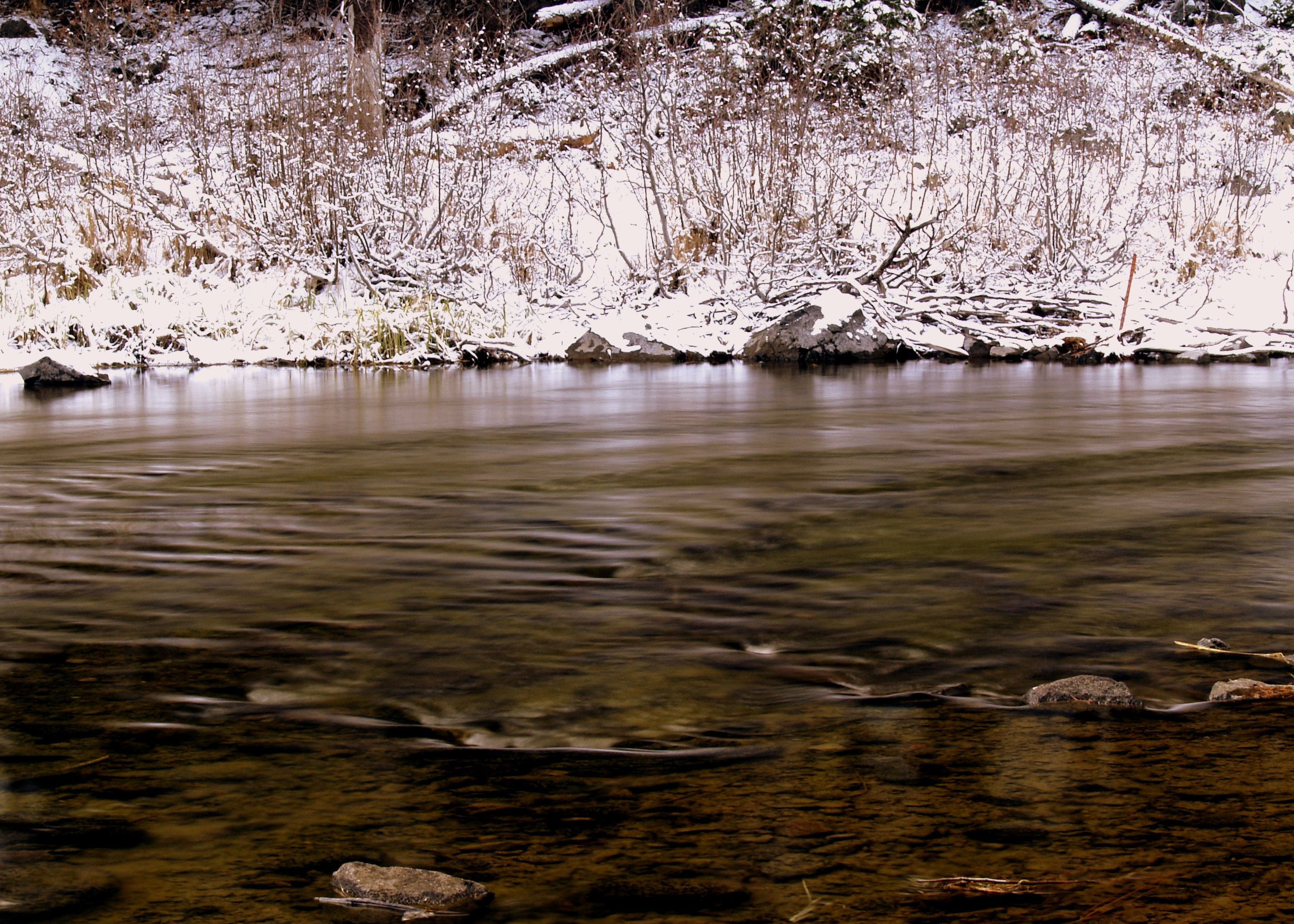 Author: M. Karrell Young Copyright 2006.